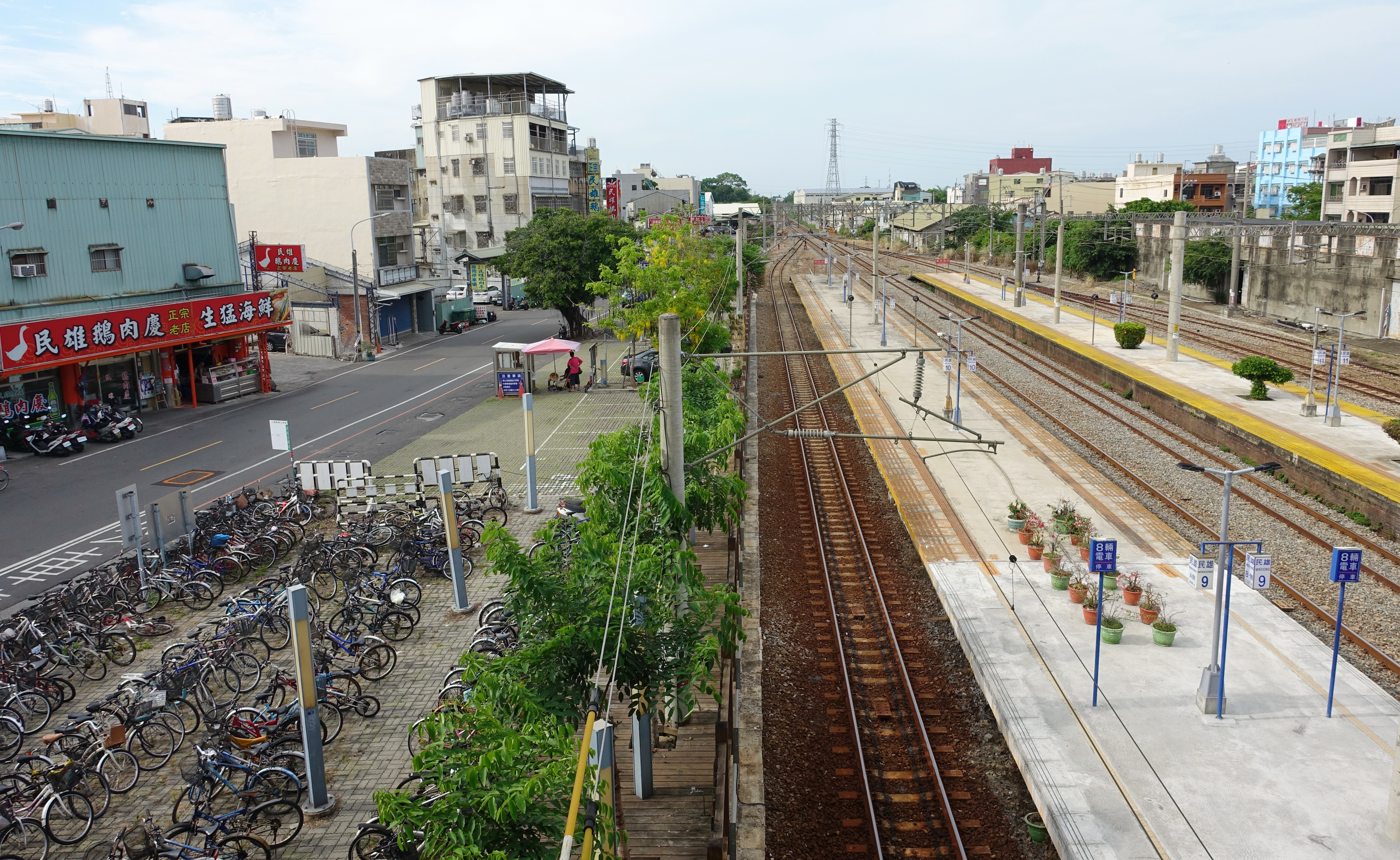 Minxiong Station, Chiayi County, Taiwan (view from the ticket hall the platforms)